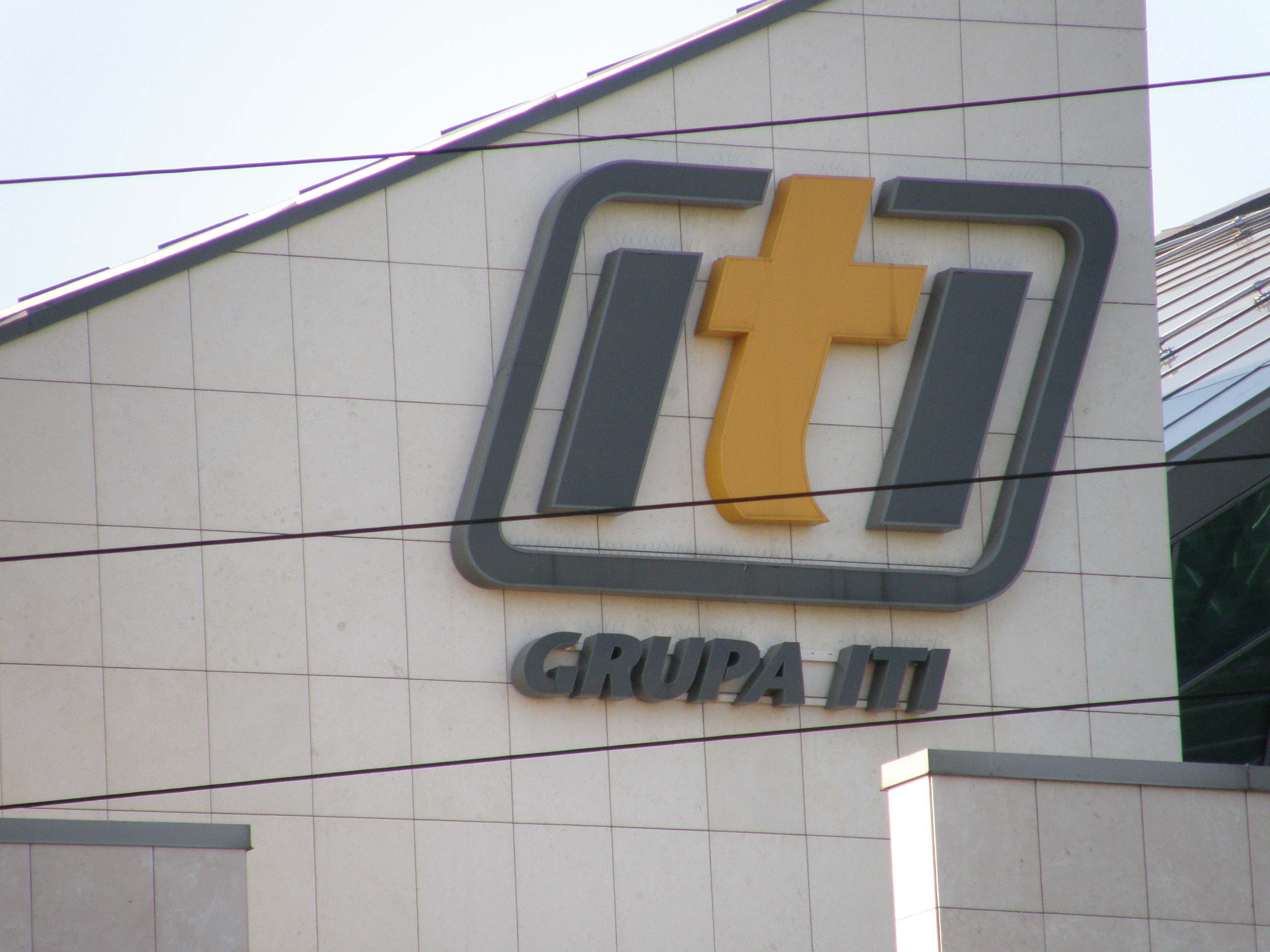 ITI Holding